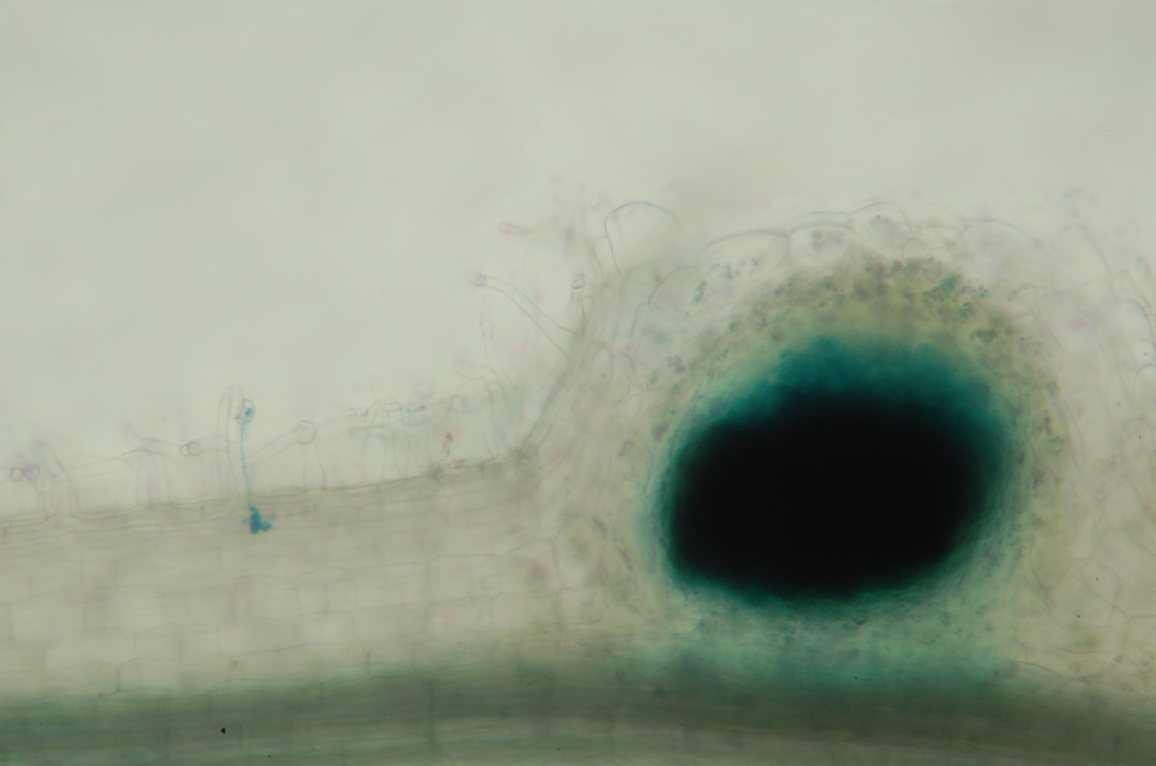 The bacterium Sinorhizobium meliloti, transformed with the lacZ plasmid pXLGD4, was inoculated onto the roots of Medicago truncatula ecotype A17. At 7 days after infection, the plant roots were fixed, stained, and imaged by microscopy. On the left can be seen a curled root hair with an infection thread which penetrates all the way to the root cortex. On the right can be seen a growing root nodule primordium.